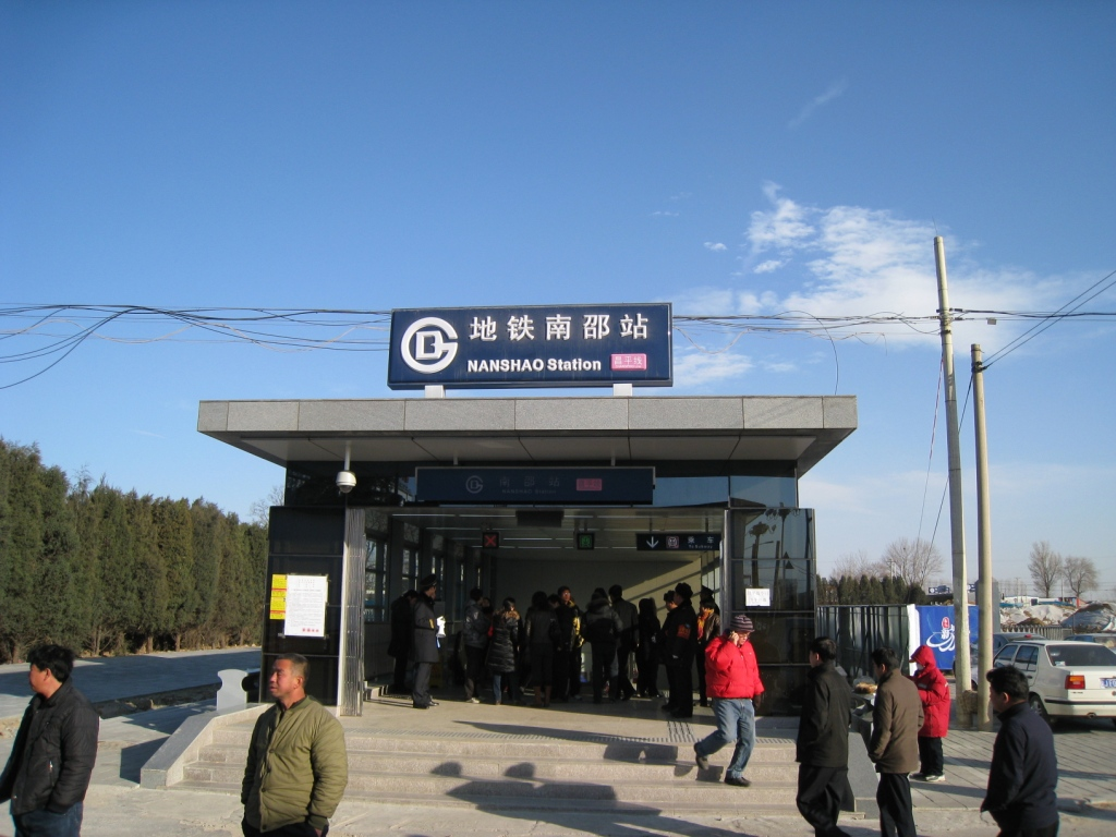 The entrance of Nanshao station. 中文（中国大陆）: 南邵站的出入口